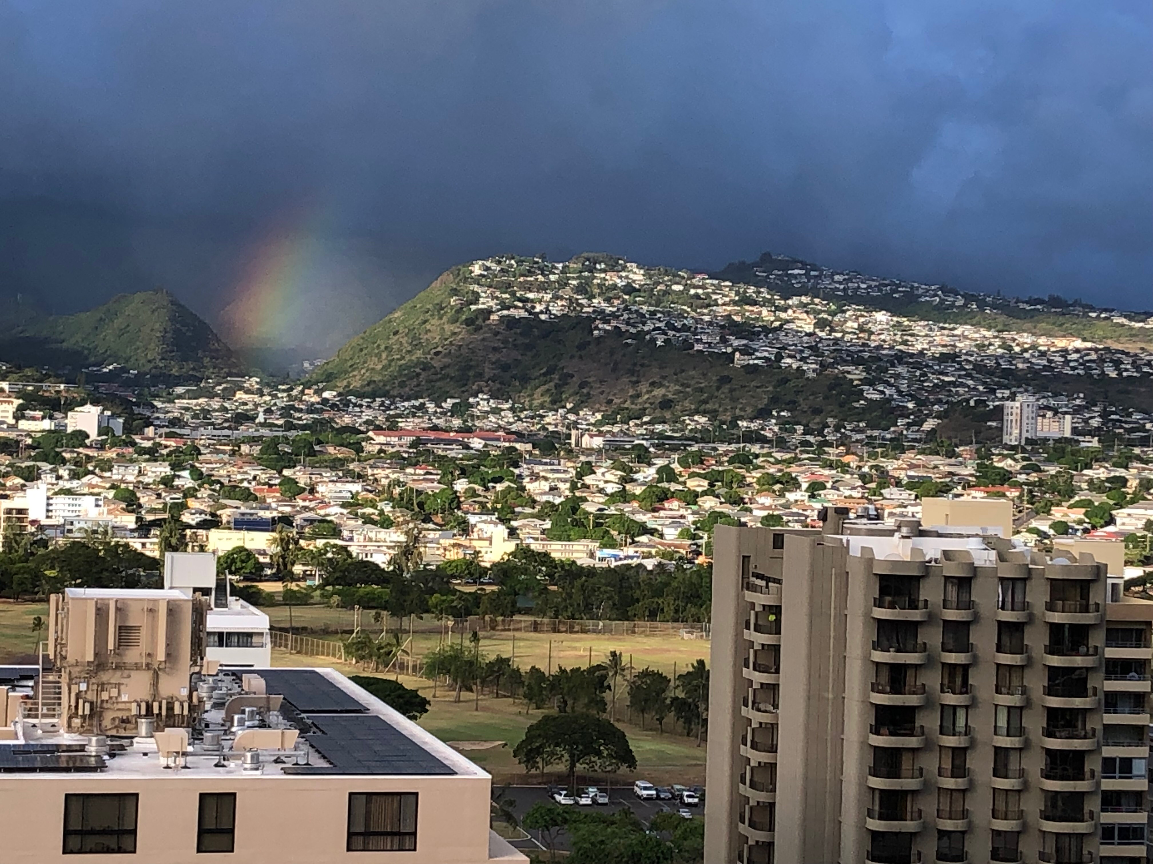 View looking northwest from Waikiki of Honolulu. Ala Wai Golf Course is the open space in the foreground, and the Wilhelmina Rise neighborhood is on the hill.